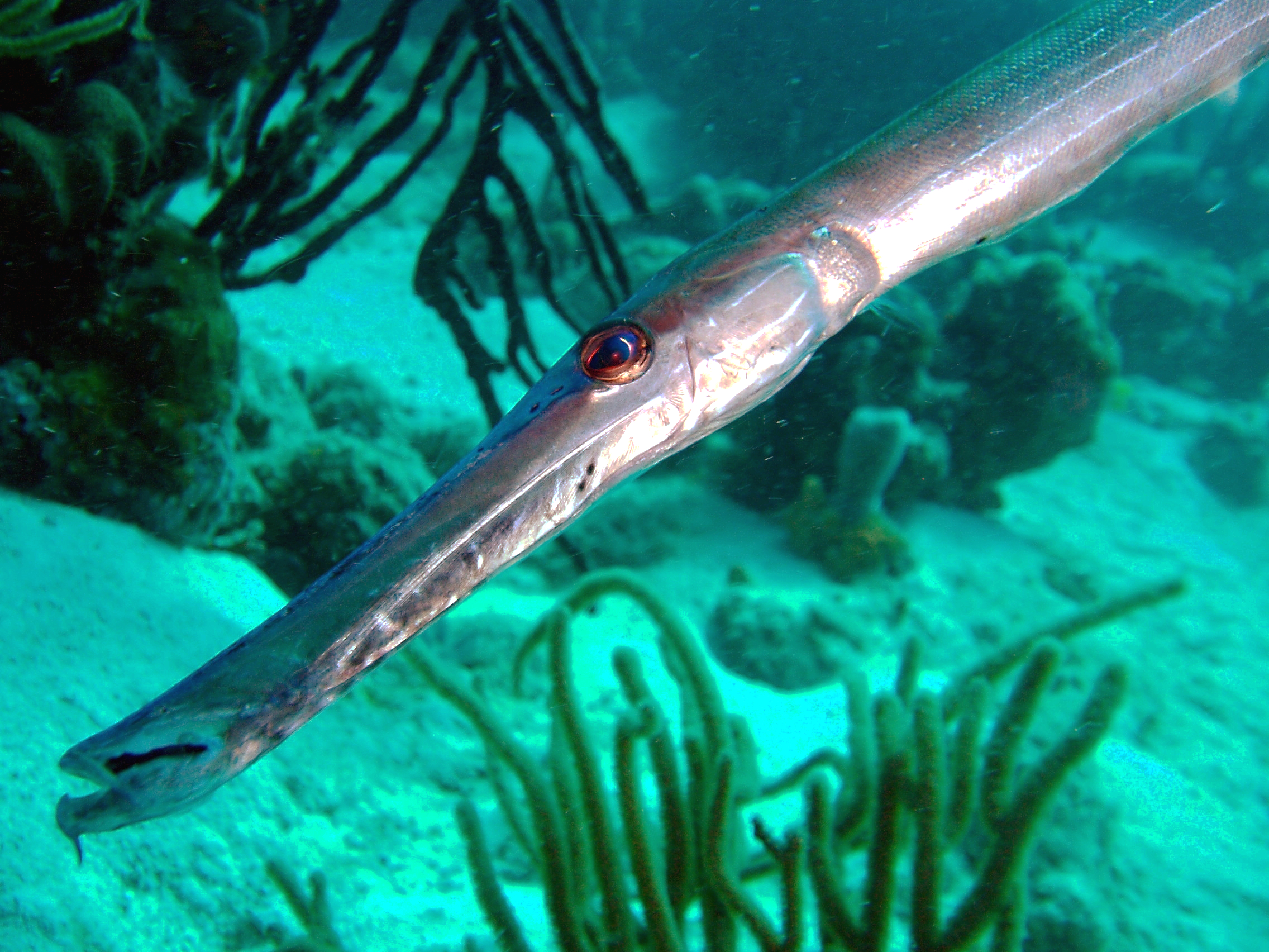 Trumpetfish (Aulostomus maculatus) Image ID: reef1097, NOAA's Coral Kingdom Collection Location: Coki Beach, St. Thomas, USVI